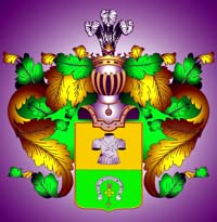 Coat of Arms of Bobrovsky family